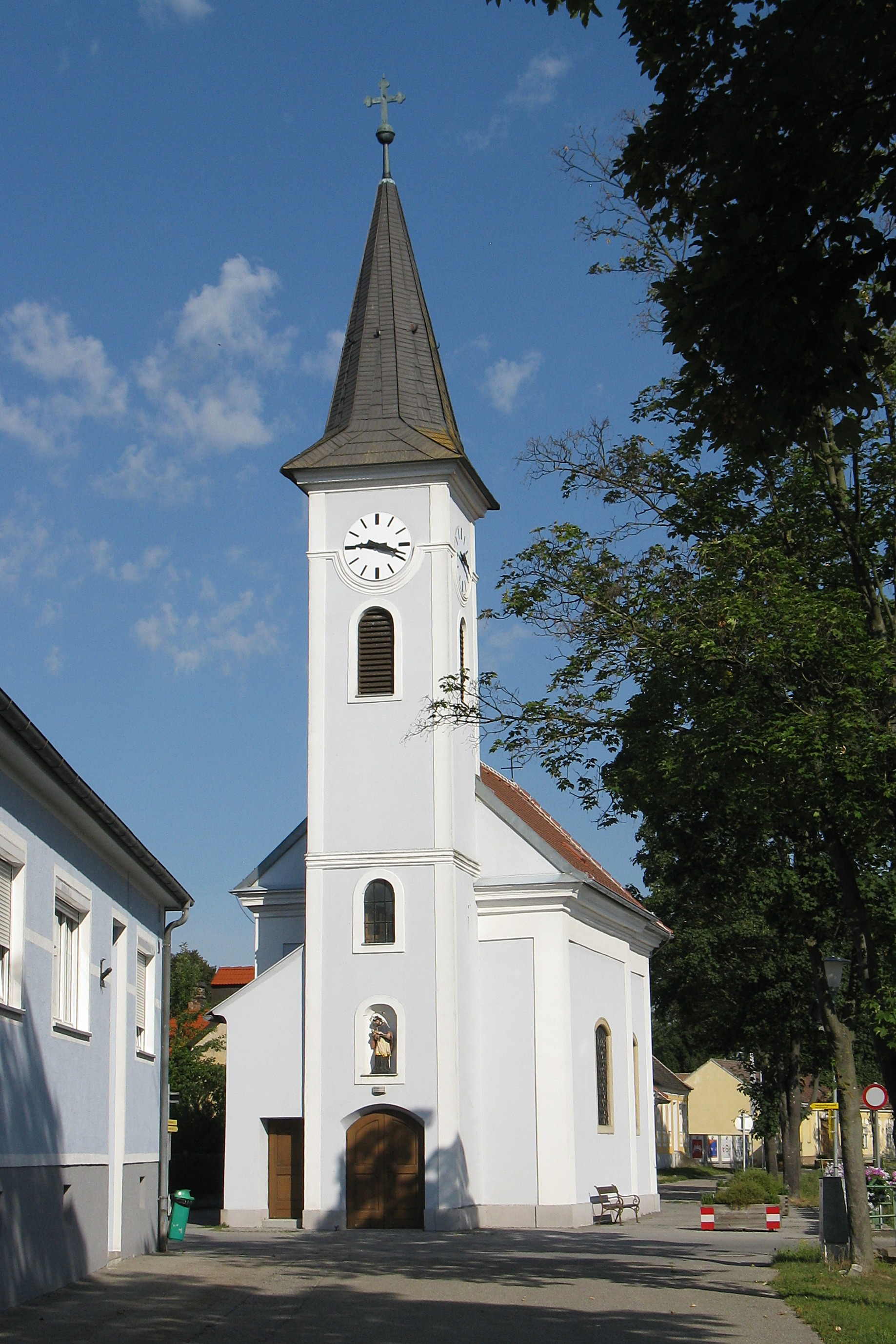 Kath. Filialkirche hl. Johannes Nepomuk